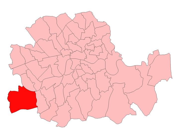 A map of Putney constituency within the London County Council area, as it existed from 1918 to 1949.